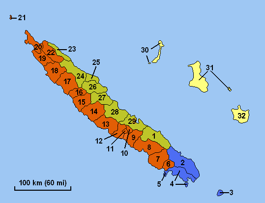 Map by Godefroy orginally uploaded on enWiki ==